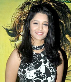 Ritika Singh at the special screening of Saala Khadoos